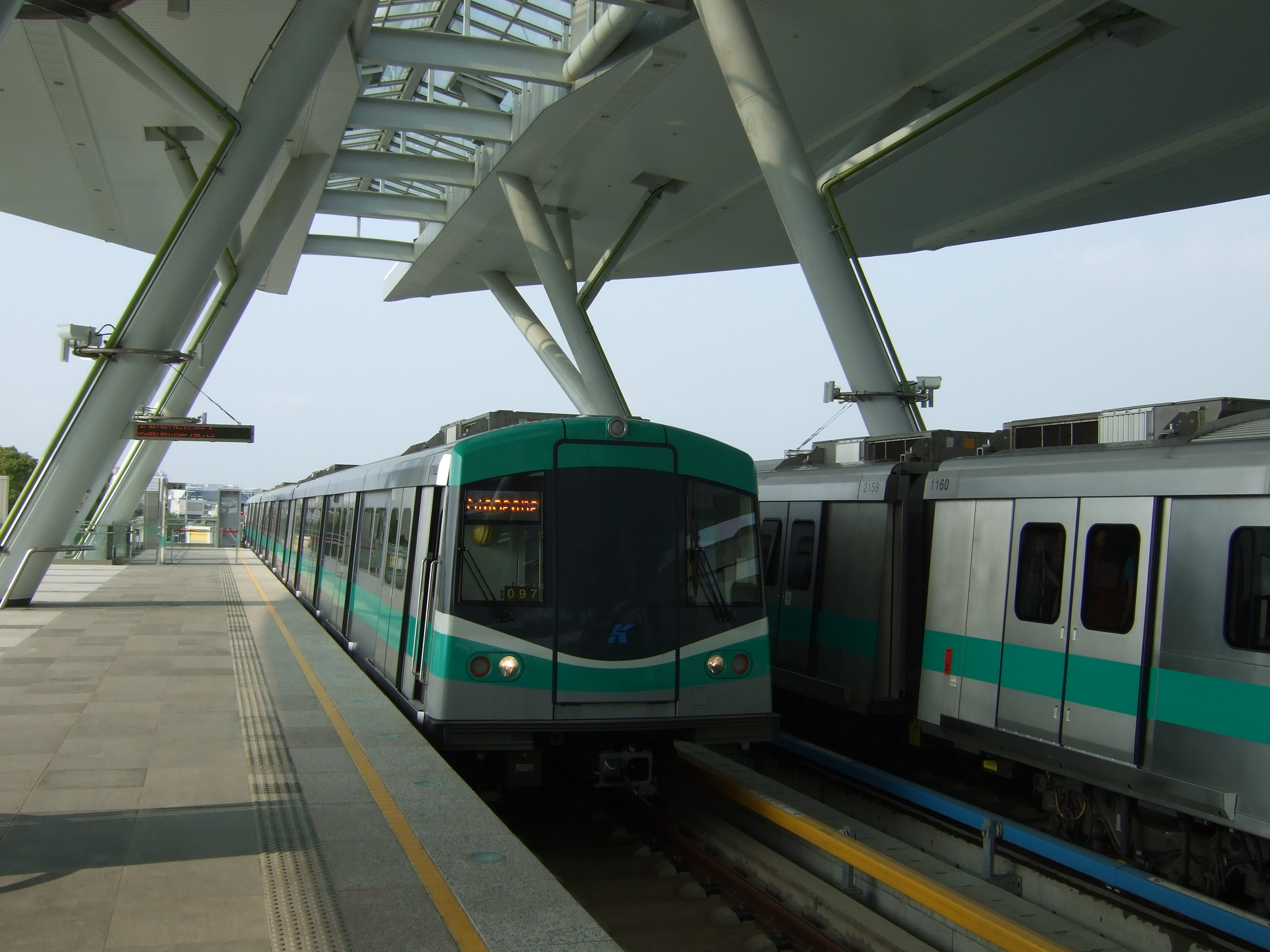 KRTC train at World Games Station